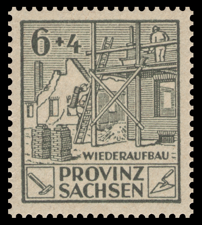 series of stamps of the Soviet occupation zone, Provinz Saxony, Reconstruction Ausgabepreis: 6+4 Pfennig First Day of Issue / Erstausgabetag: 19. Januar 1946 Michel-Katalog-Nr: 87A (Alliierte Besatzung - Sowjetische Zone - Provinz Sachsen)